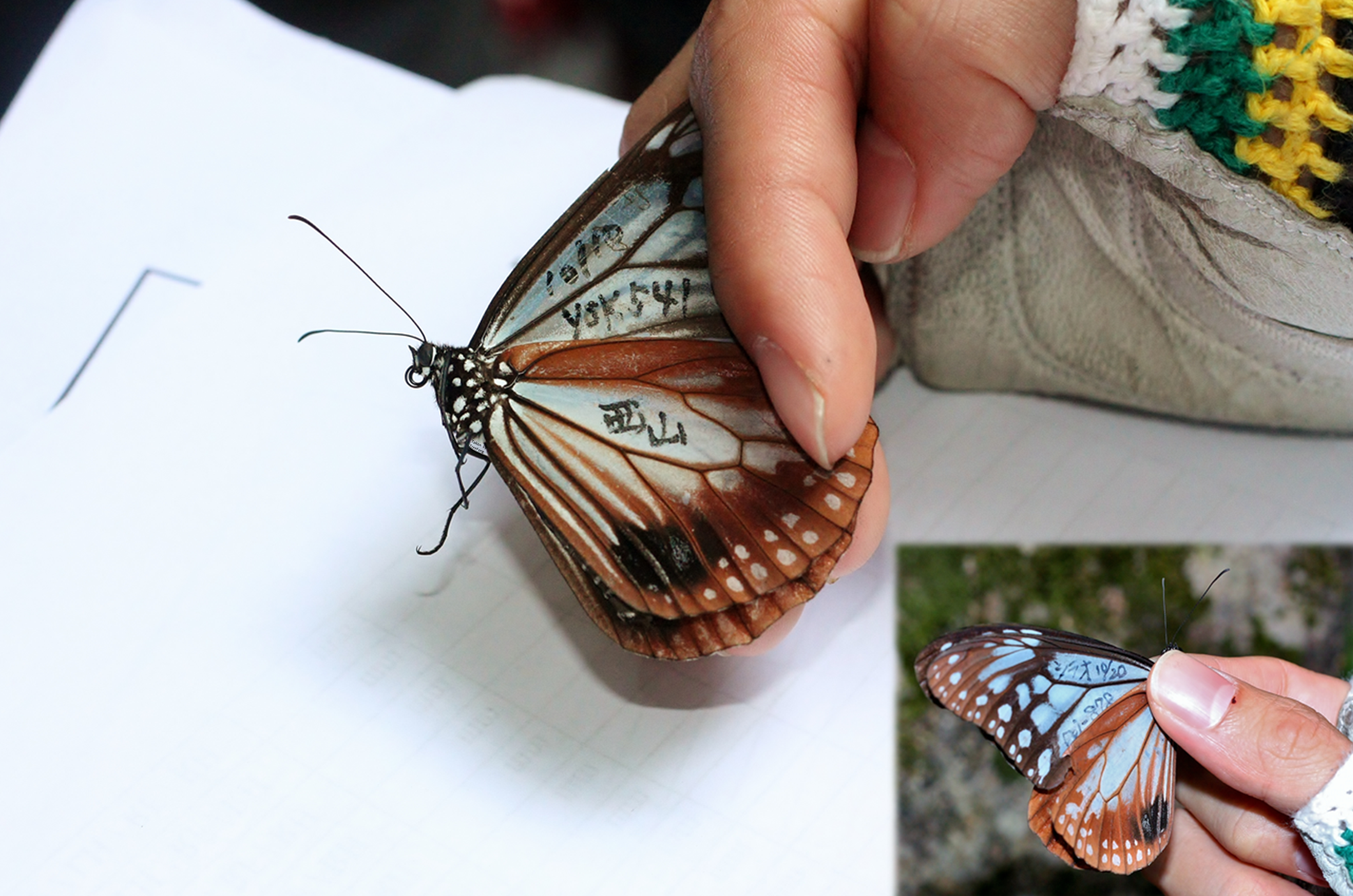 a Chestnut Tiger butterfly(Parantica sita) which flew away from Aichi Prefecture, Japan and recaptured in Deep Water Bay, Hong Kong after about 2 months.